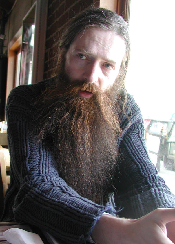 Bruce Klein and Susan Fonseca-Klein took this photo of Aubrey de Grey on January 23rd 2008 in Los Angeles, California. Aubrey has given permission to use photo in the public domain.